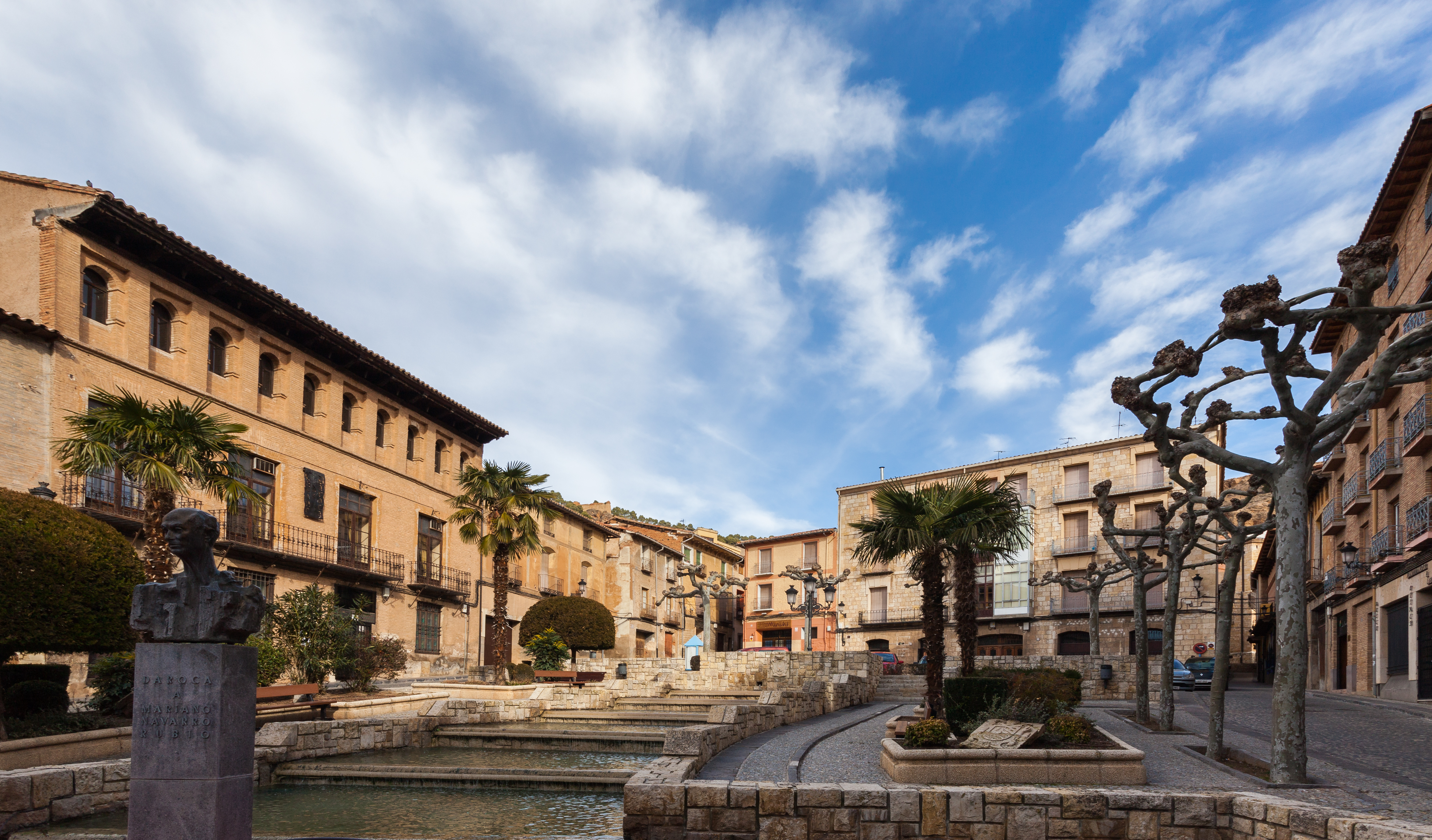 Santiago Square, Daroca, Zaragoza, Spain